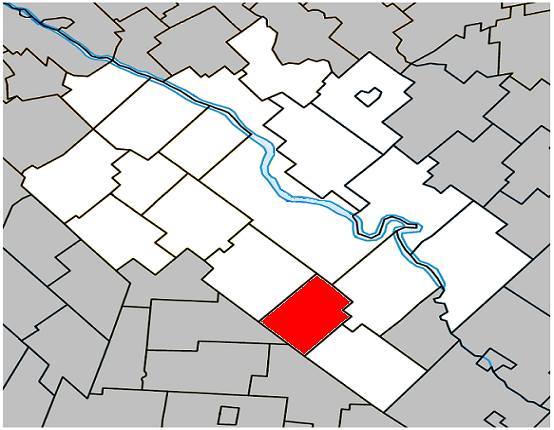 Location of Lefebvre, Quebec within Drummond Regional County Municipality.